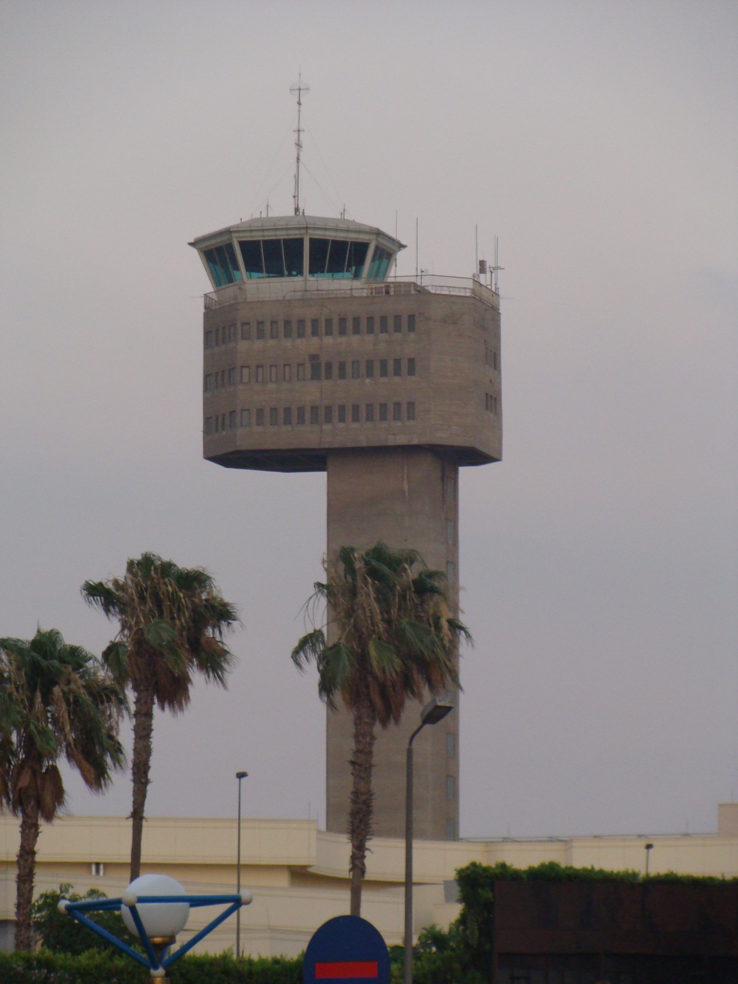 The old Air traffic tower in Cairo International Airport.